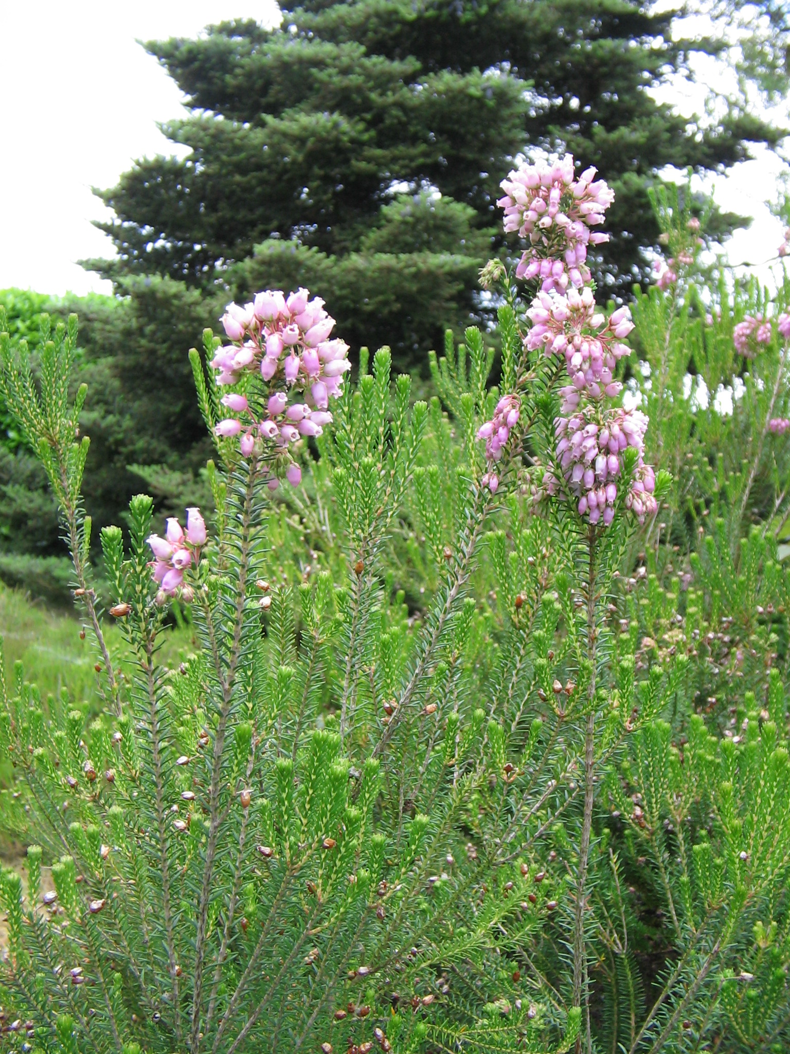 Erica terminalis - close-up